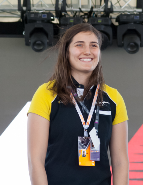 Tatiana Calderón GP3 Driver team DAMS at Spanish GP 2017